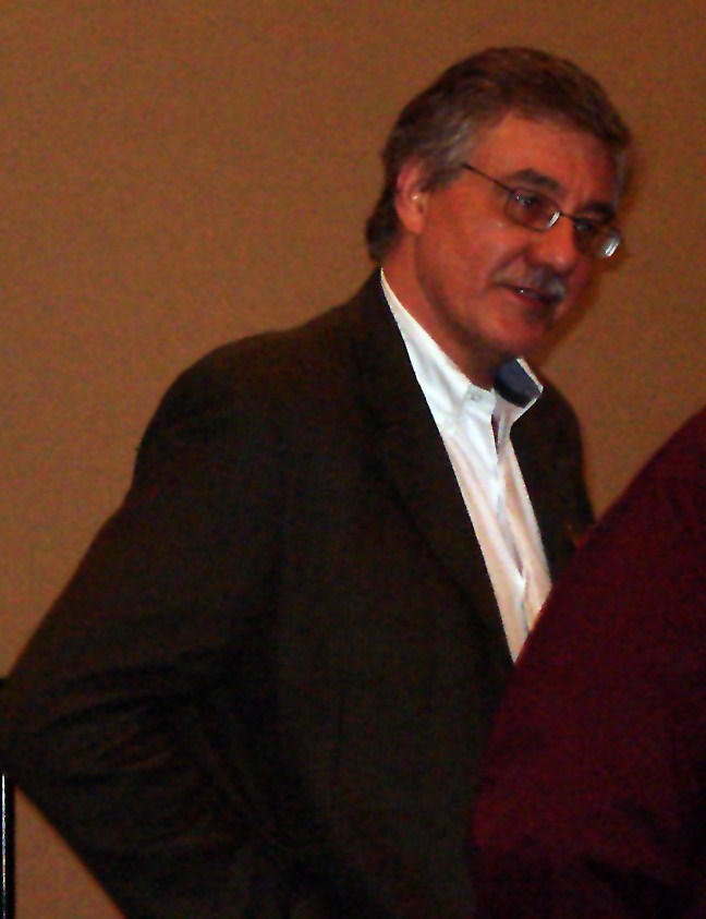 Denis Kitchen at the en:2007 New York Comic-Con. Copyright 2007 Jeffrey O. Gustafson - released under the GFDL and CC-BY-SA-2.0.